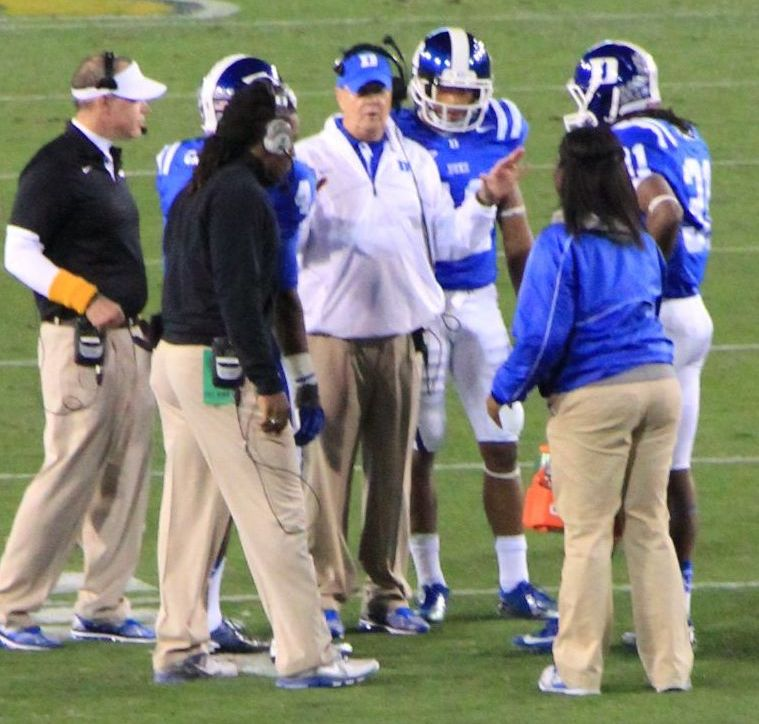 Duke football coach David Cutcliffe meeting with players, 2012